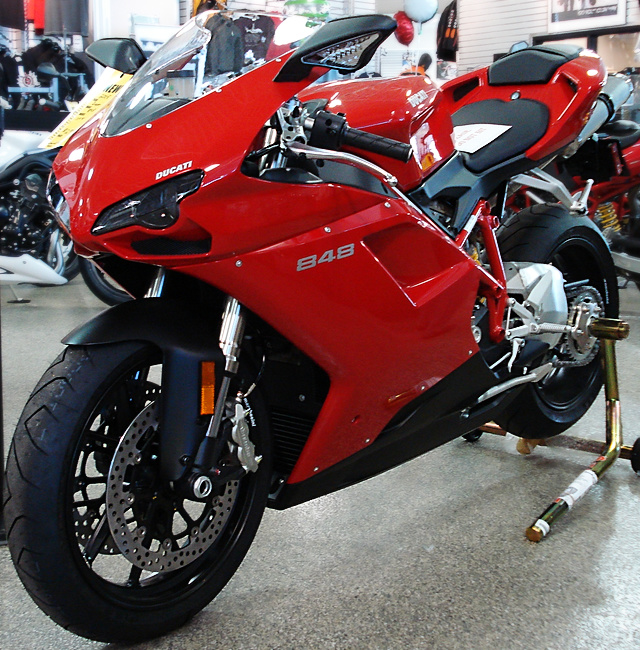 2008 Ducati 848 in showroom